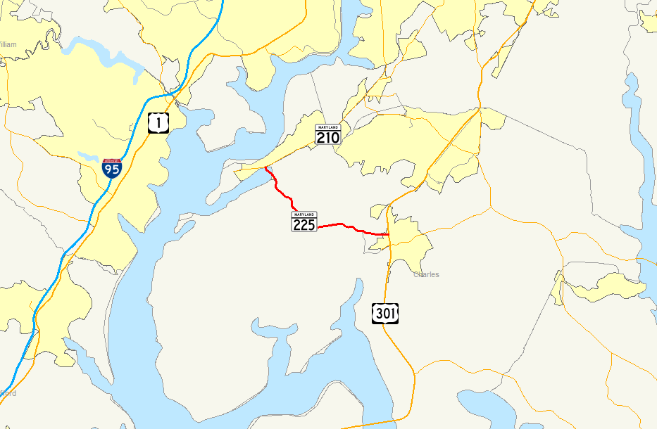 Map of Maryland Route 225